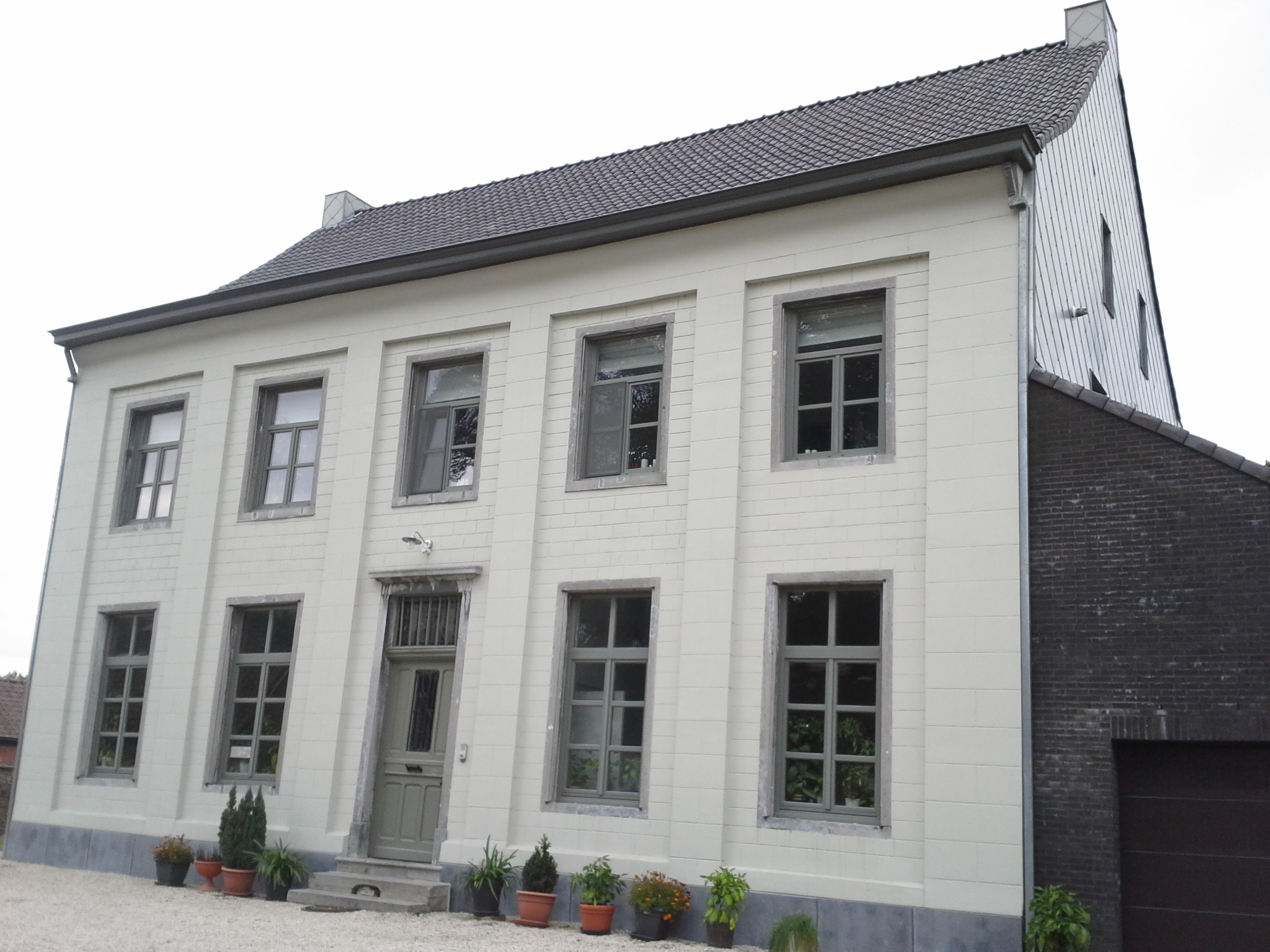 Presbytery Broekstraat Kobbegem Belgium